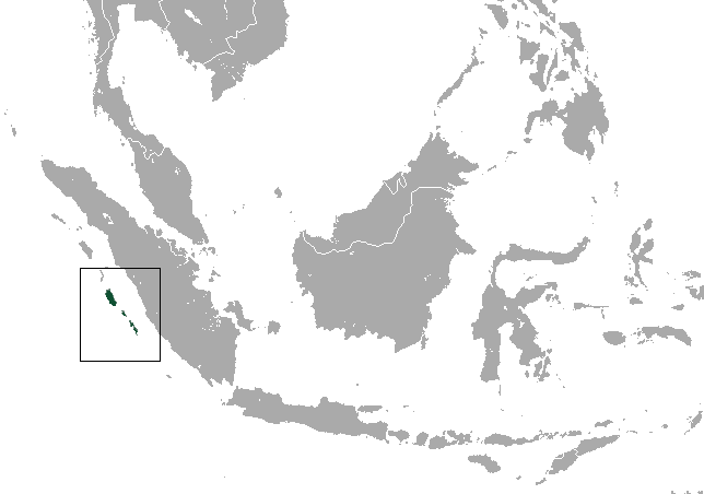 Pig-tailed Langur (Simias concolor) range